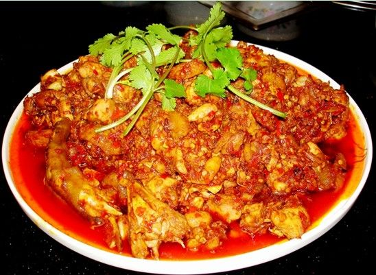 沾益辣子鸡